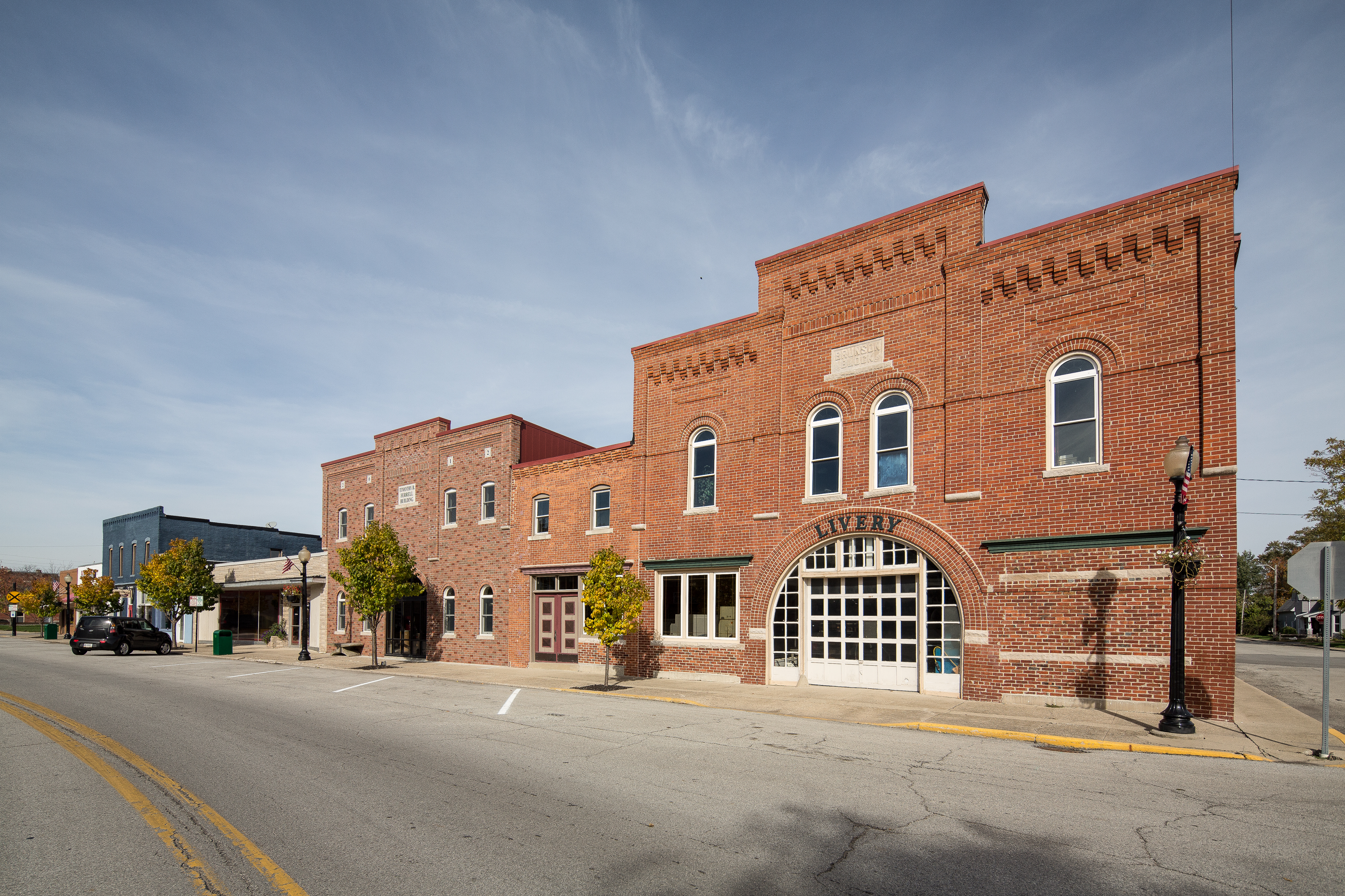 Photo from Small Town Indiana photo survey.